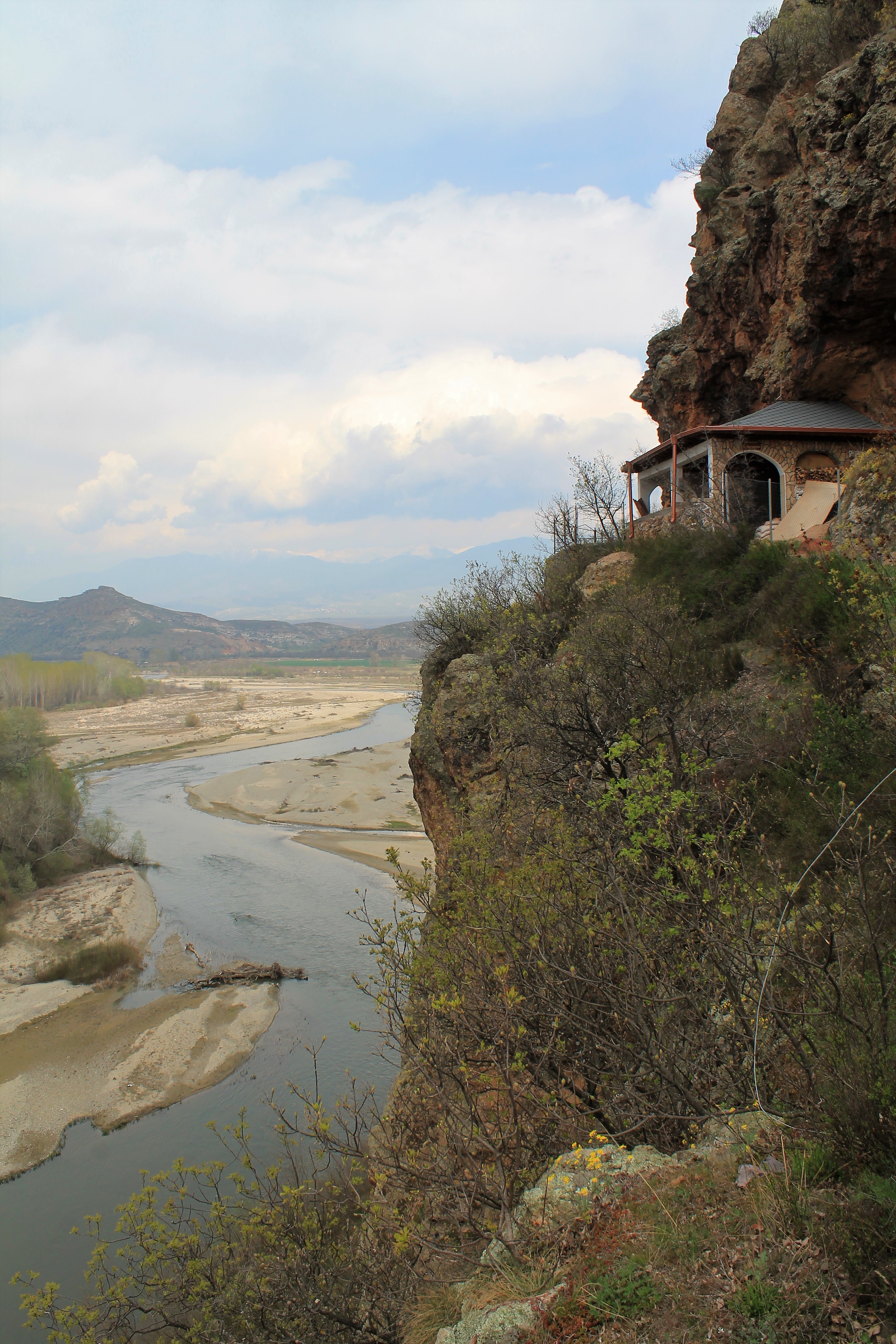 The Rock Church "St. Panteleimon" near the village of General Todorov, Southwestern Bulgaria